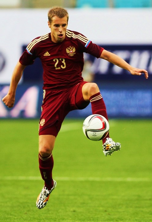 Dmitri Kombarov